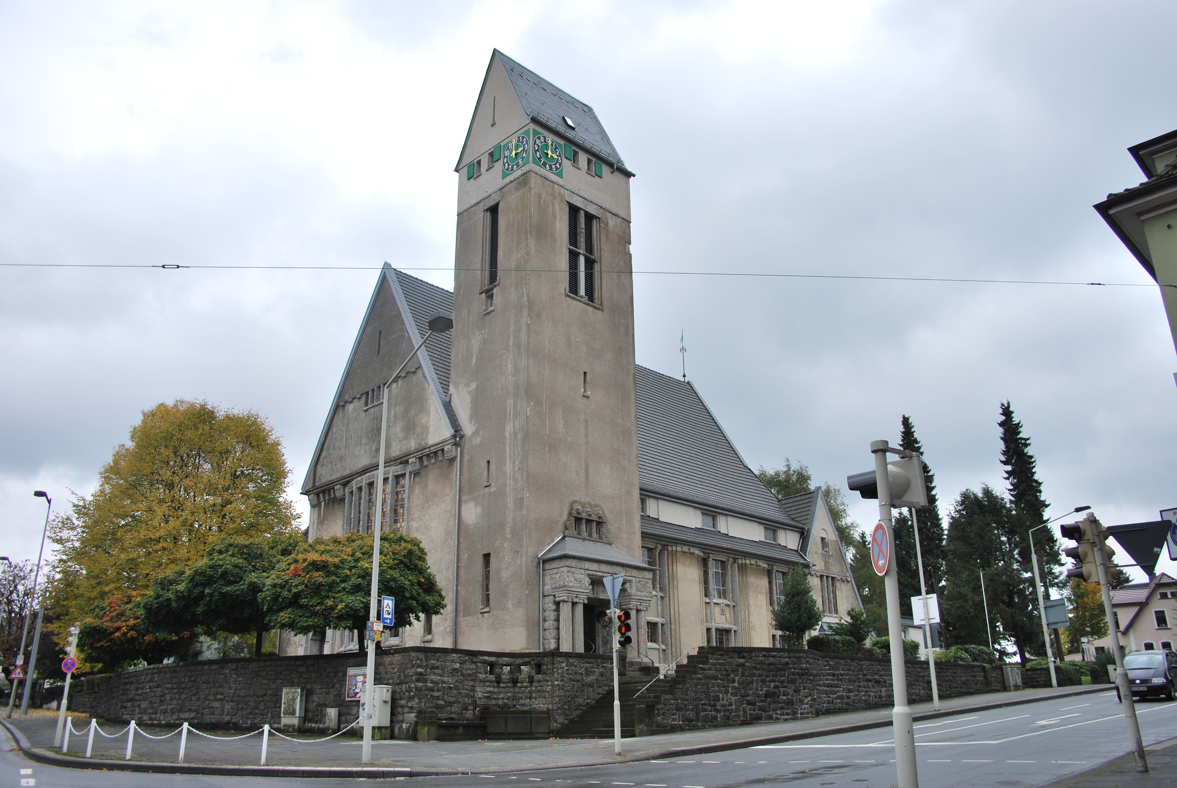 Dorper Church Solingen